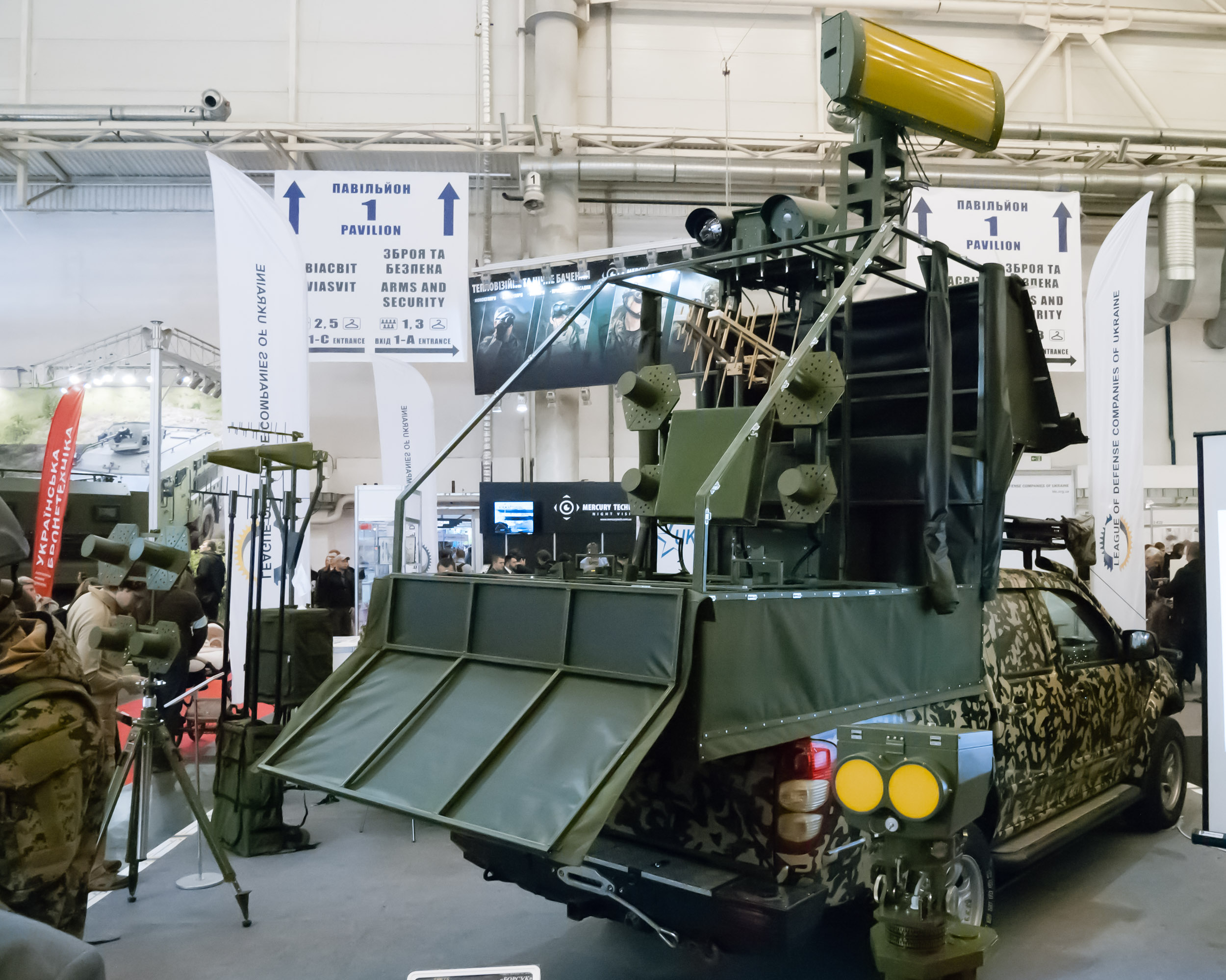 Polonez counter-UAV system by Ukrspetstechnika (Ukraine) at 'Zbroya ta Bezpeka' military fair, Kyiv, Ukraine, 2018